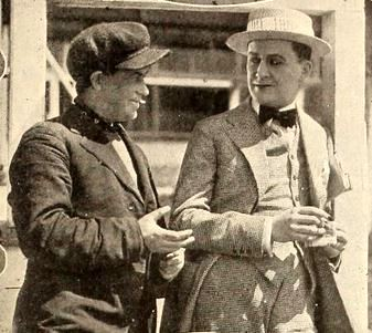 Still from the American film Checkers (1919) with Tammany Young and Thomas Carrigan, on page 1629 of the August 23, 1919 Motion Picture News. This still is also on page 52 of the September 20, 1919 Exhibitors Herald.